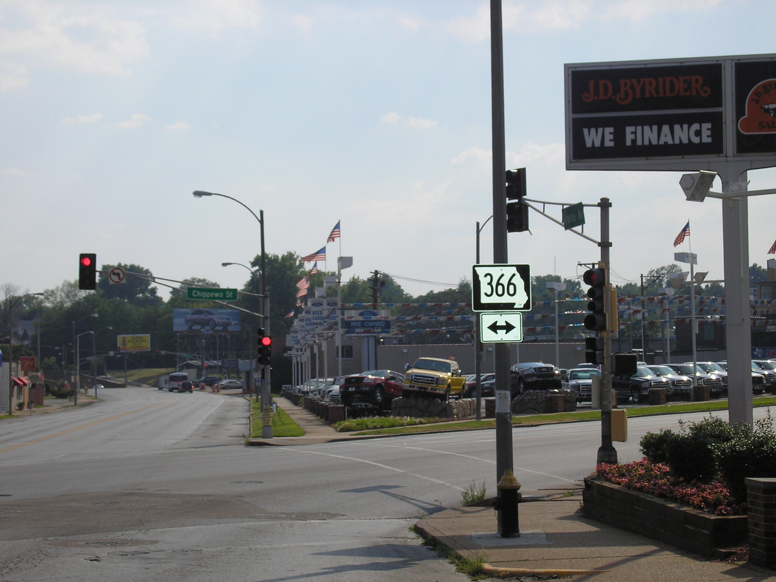 Route 366 in St. Louis. Route 366 in St. Louis. Route 366 is Chippewa Street (horizontal); the street running dead ahead is Gravois Avenue.